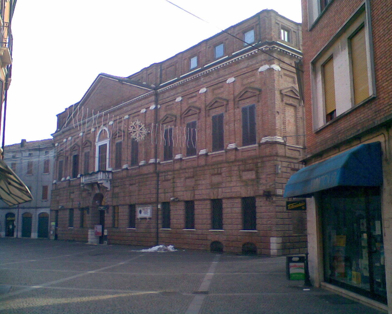 Ostiglia, Italy, townhall